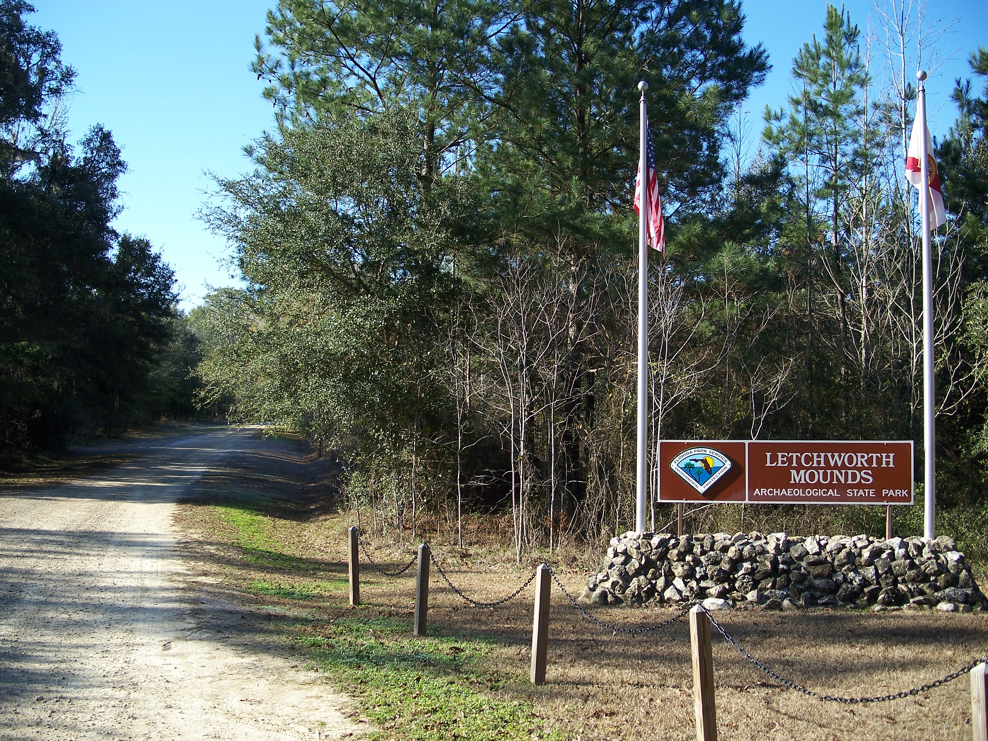 Entrance to Letchworth Mounds Archaeological State Park, near Monticello, Florida